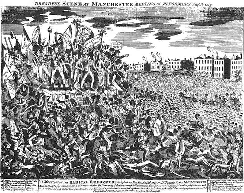 Dreadful Scene at Manchester Meeting of Reformers Augt. 16. 1819: A print depicting the Peterloo Massacre of 16 August 1819, at Manchester, England. Several copies had been published at the time of its creation.[1]